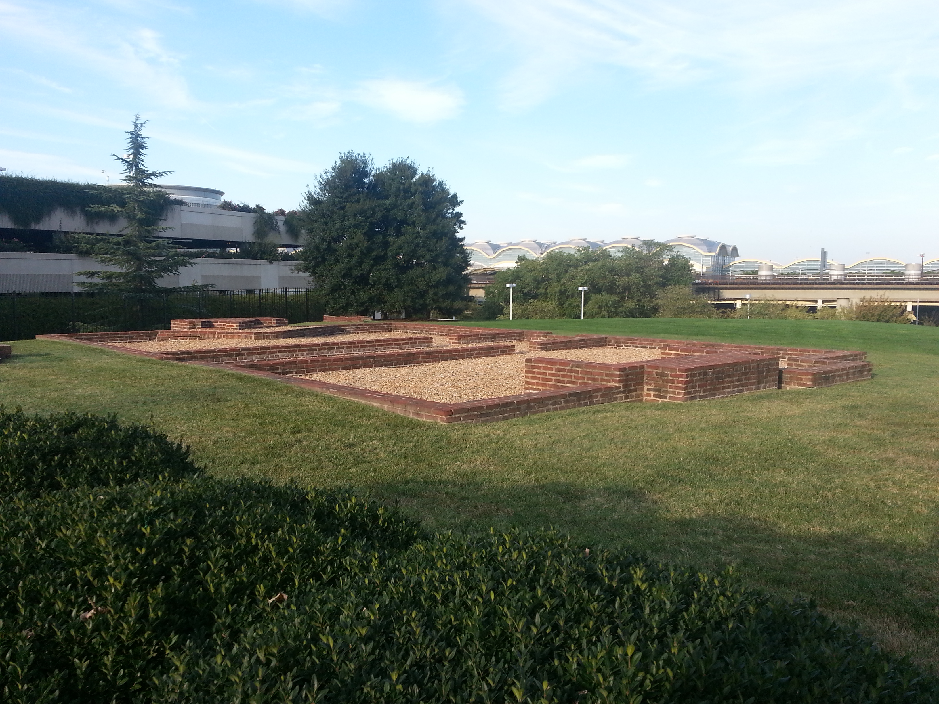 Reconstructed foundation of the main house on the Abingdon plantation historical site at Ronald Reagan Washington National Airport.